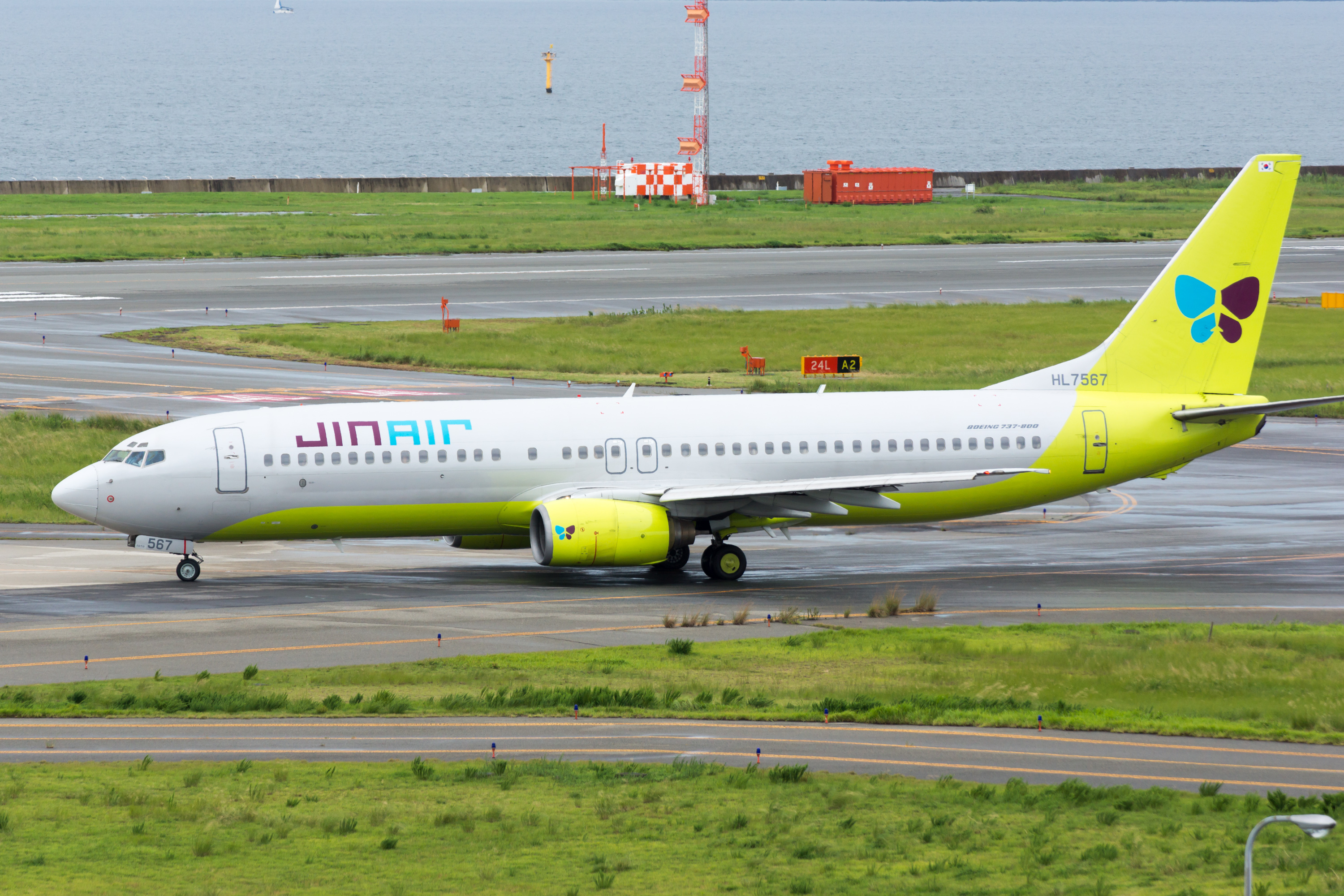 Jin Air / 진 에어 / ジンエアー Boeing 737-86N HL7567 LJ212, Departed to Incheon, Seoul Osaka Kansai Int'l Airport